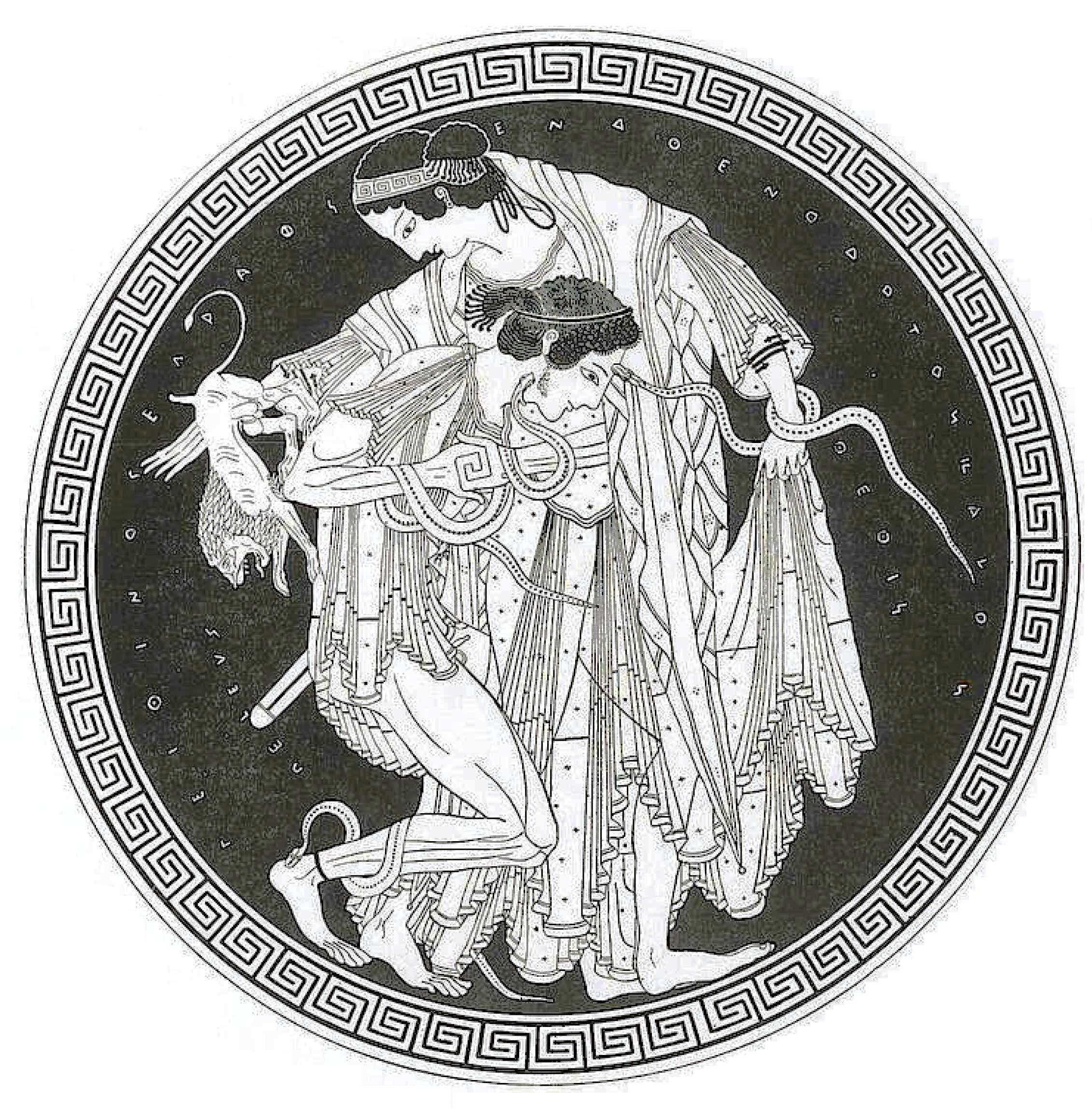 tondo of a kylix, Berlin